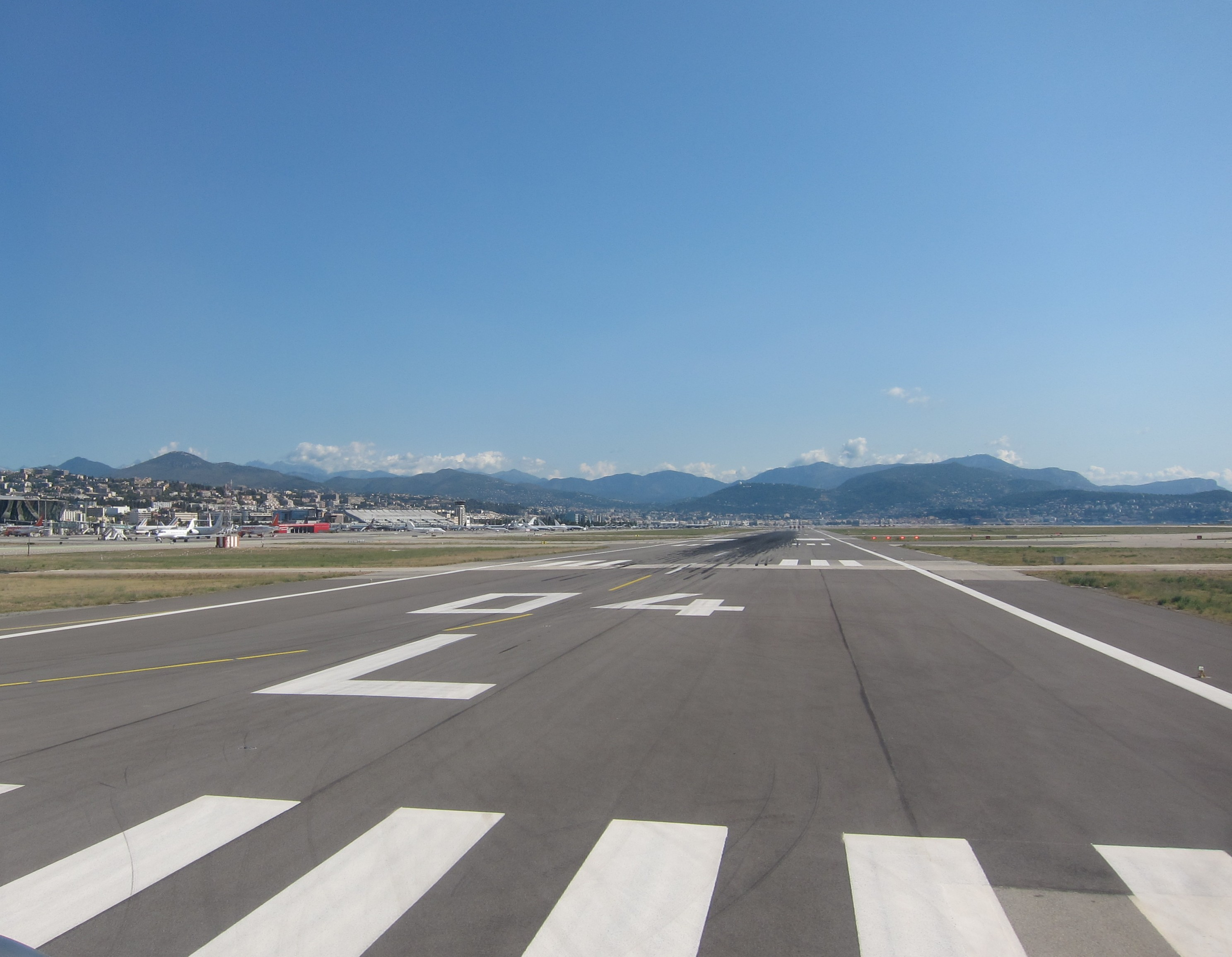 Threshold of runway 04L at Nice-Côte-d’Azur airport